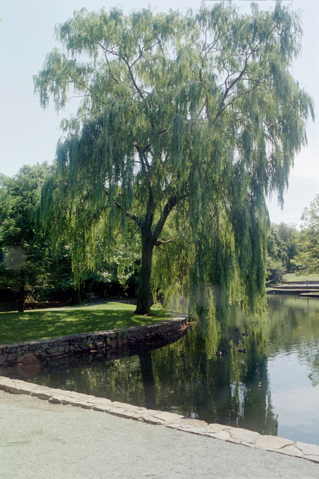 A magnificent mature Weeping Willow tree, taken in the Summer of 2006 on the banks of the pond on the grounds of the MediTech corporation.